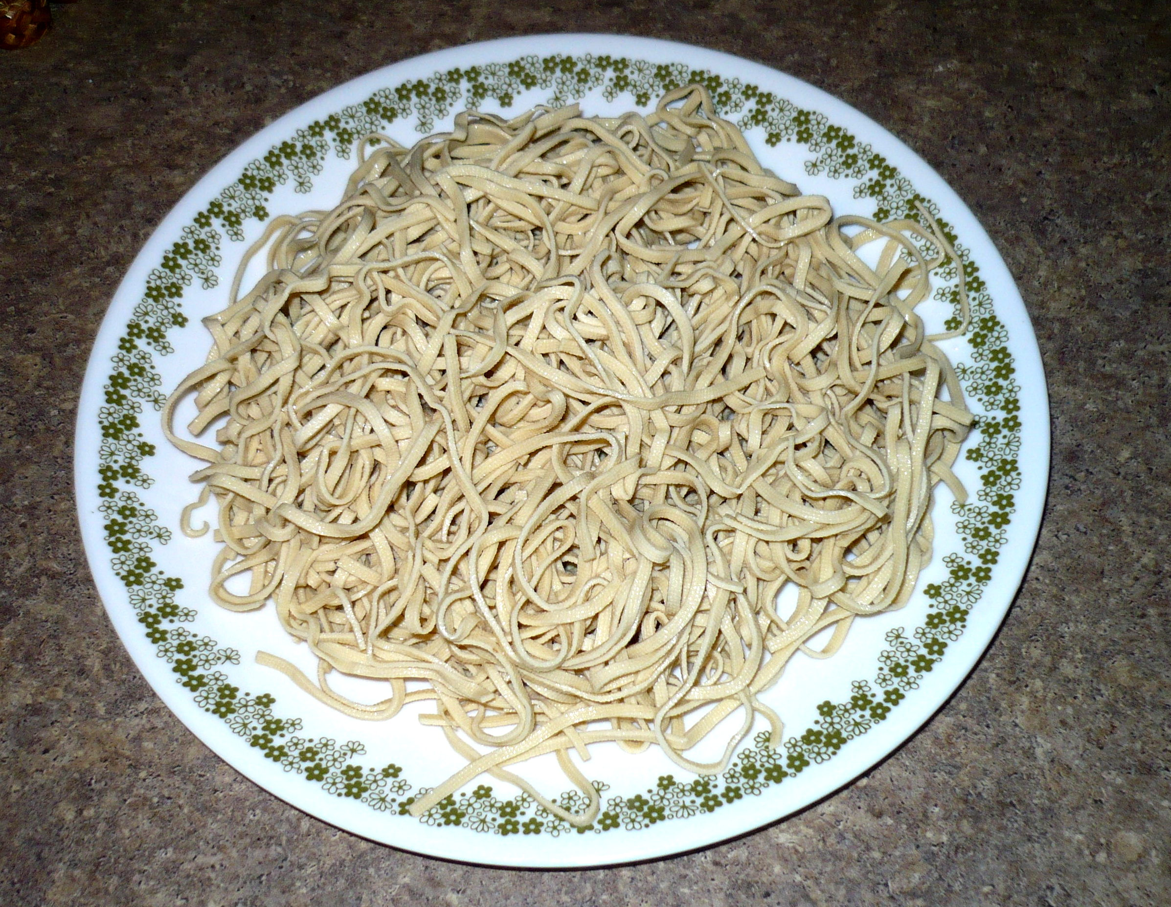 bean curd thread